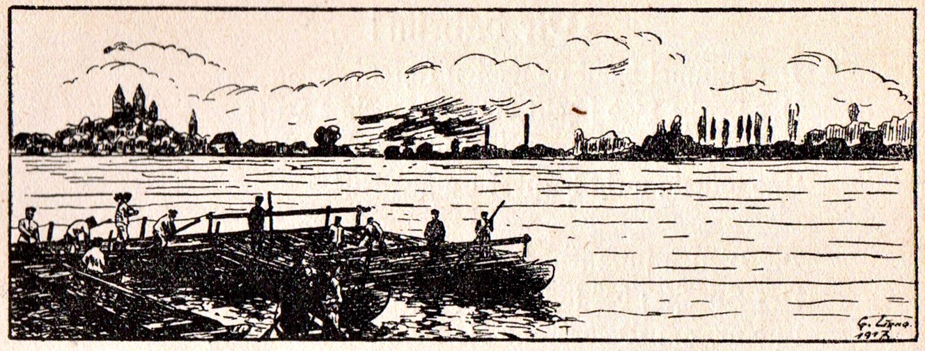 Georg Lang, Pioniere am Rhein bei Speyer, 1913